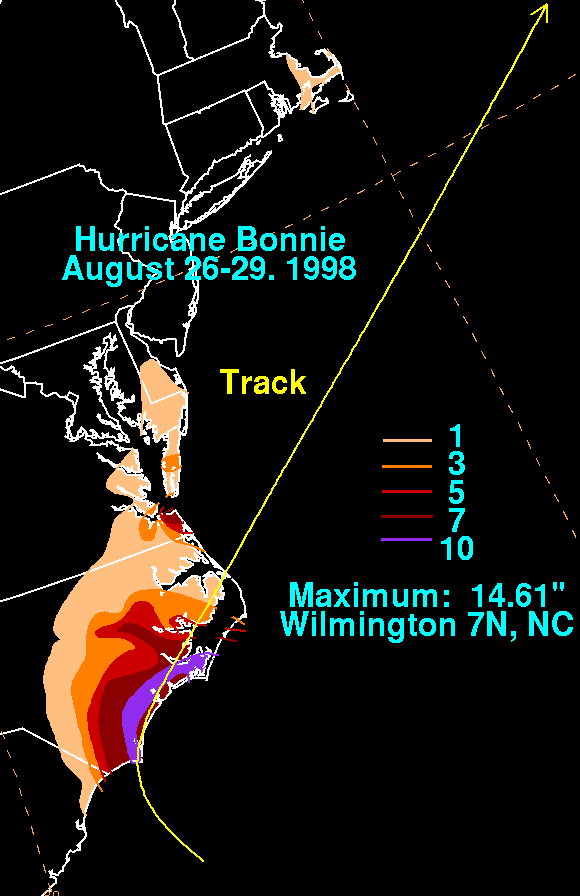 Rainfall produced by Hurricane Bonnie during August 1998.